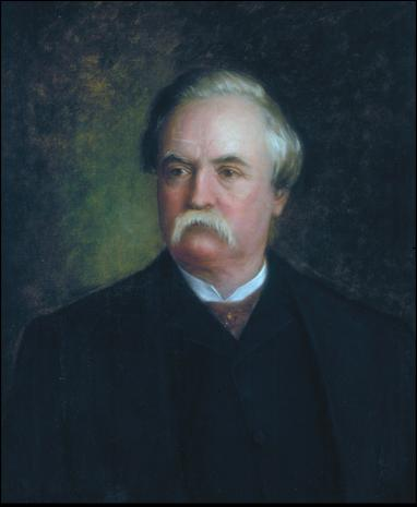 James Proctor Knott (August 29, 1830 – June 18, 1911) was a U.S. Representative from Kentucky and served as the 29th Governor of Kentucky from 1883 to 1887.